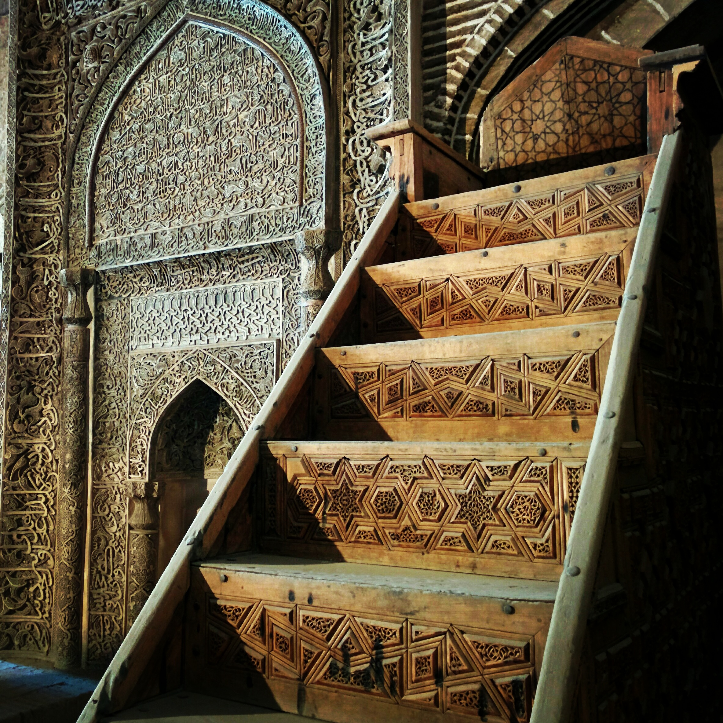 Öljaitü (1280 - December 16, 1316)